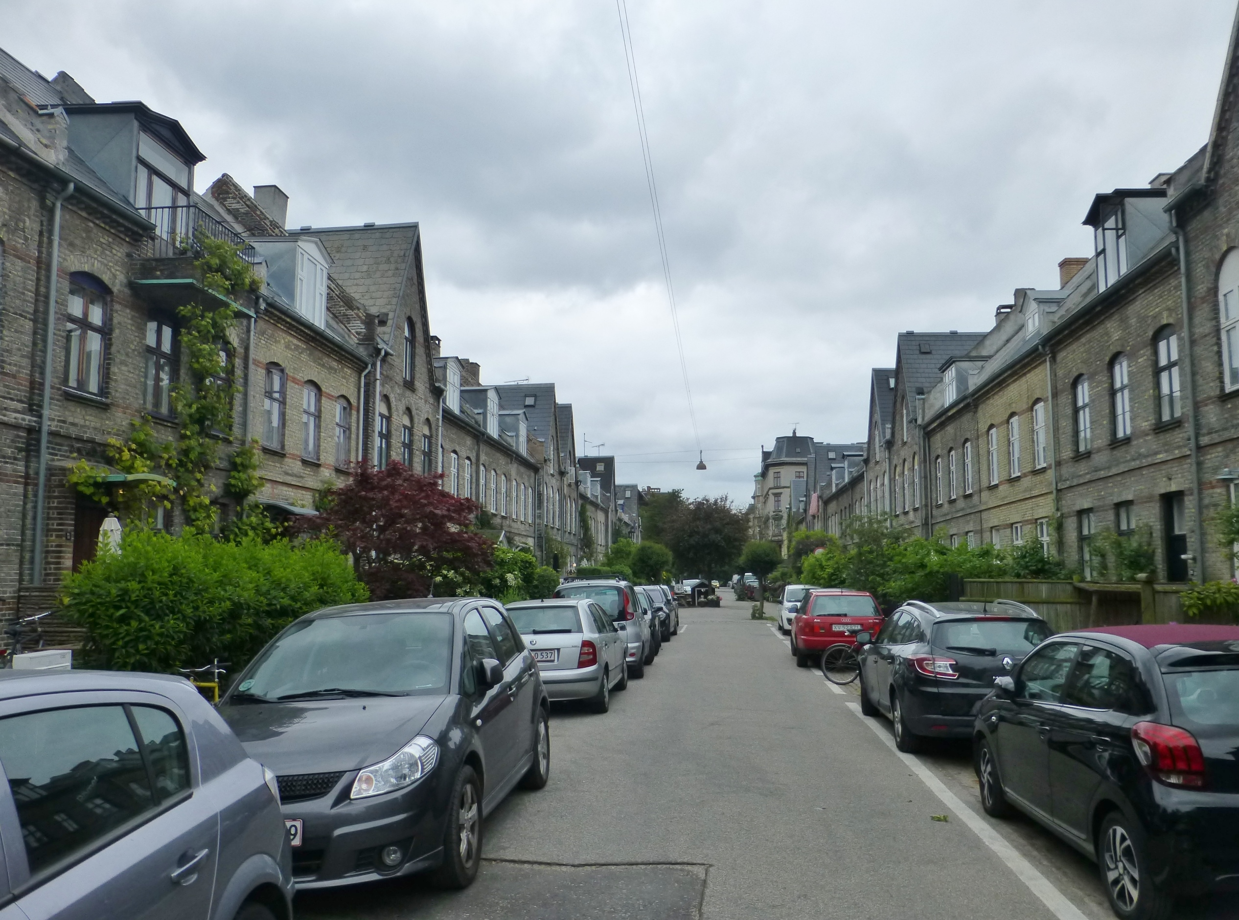 The street Skovgaardsgade in the area Kartoffelrækkerne in Østerbro in Copenhagen.